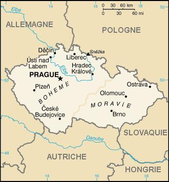 This image was copied from fr. The original description was:carte de la Rép. tchèque - origine CIA World Factbook; francisation maison